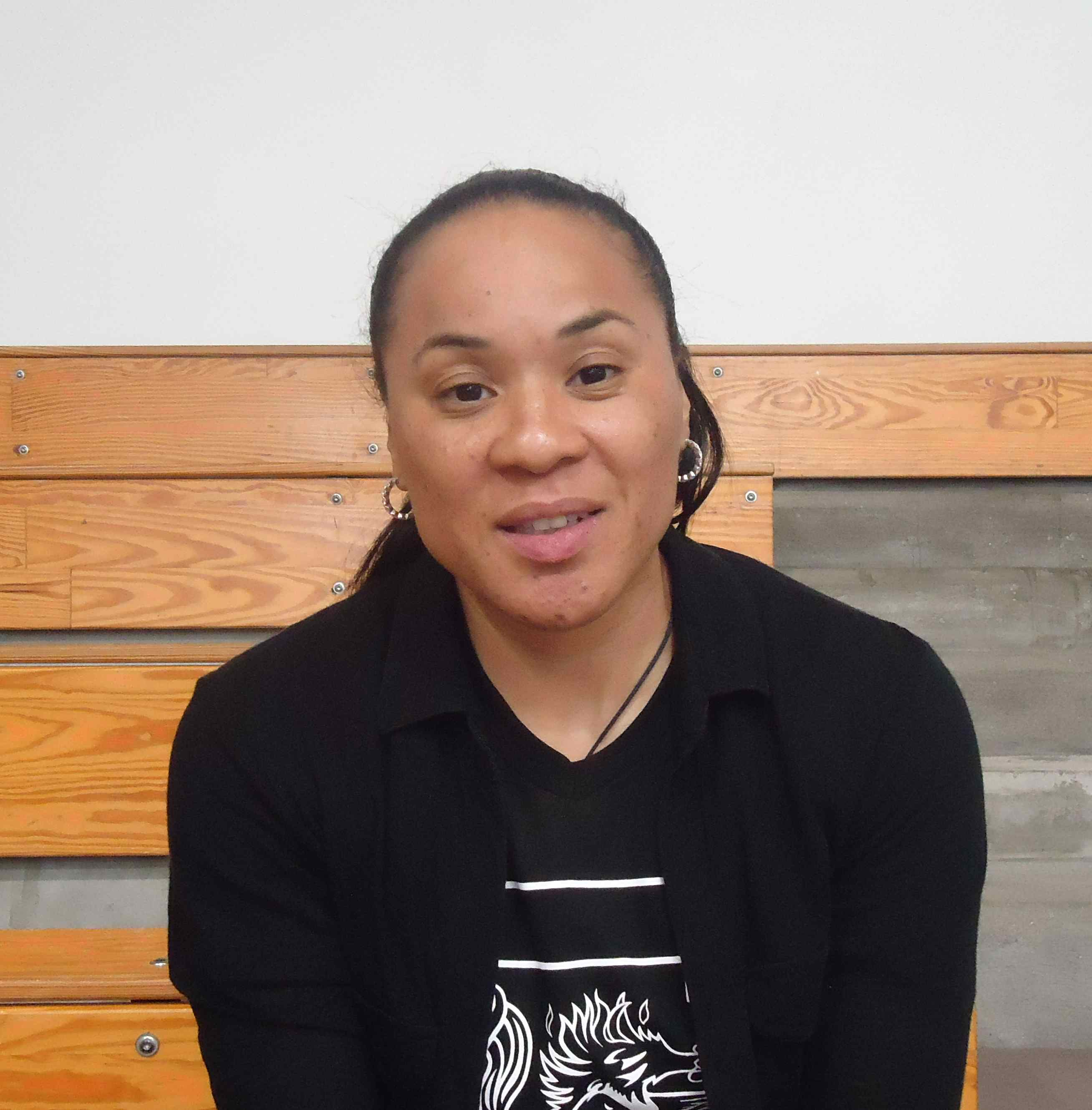 Dawn Staley, head coach South Carolina women's basketball team, at the Paradise Jam 2012 in St. Thomas US Virgin Islands